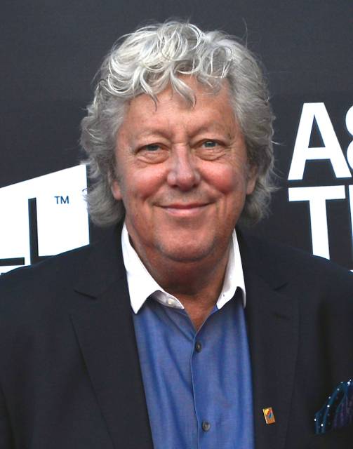 Ulf Elfving during the opening of ABBA: The Museum May 6, 2013.